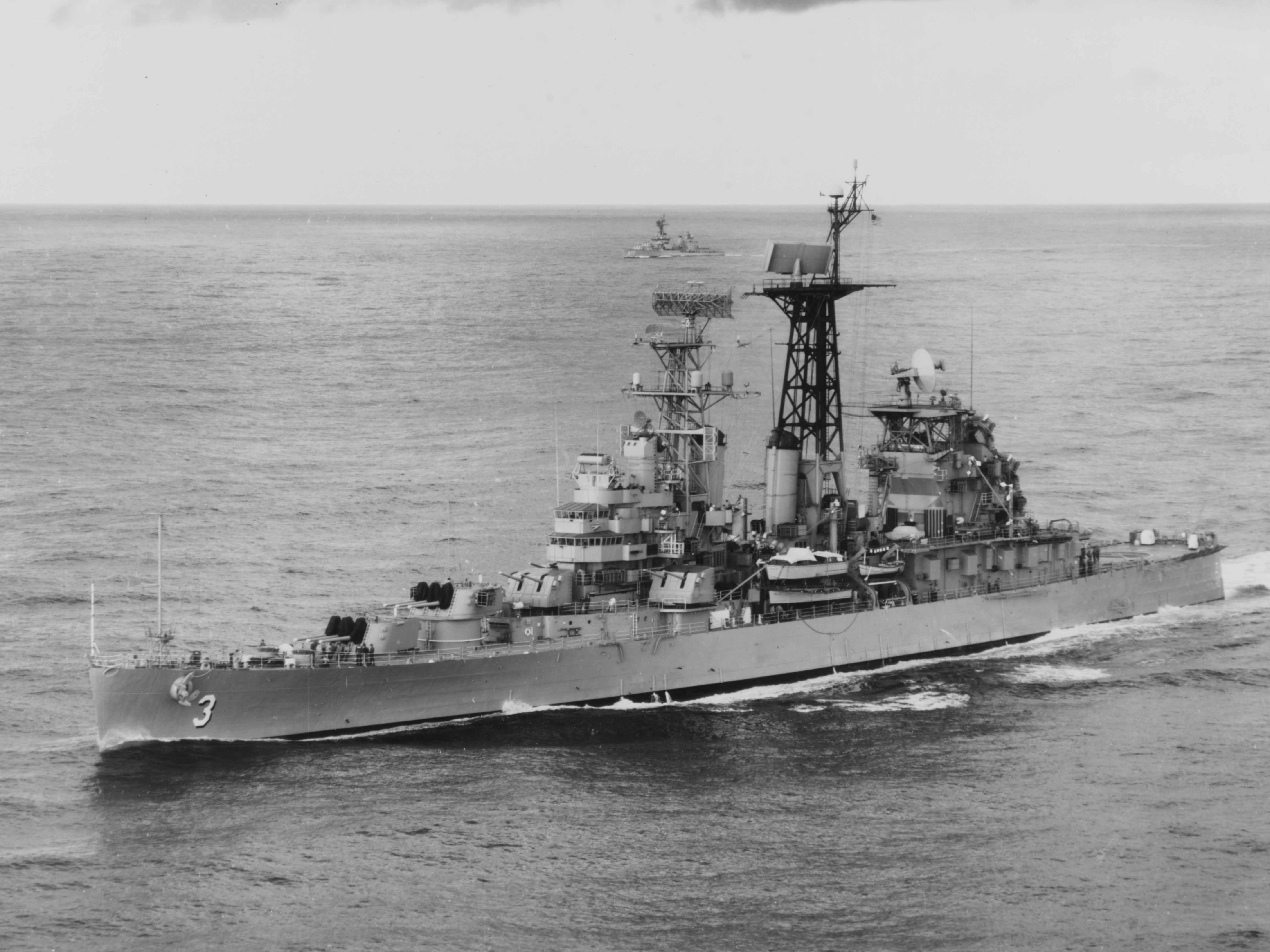 The U.S. Navy guided missile cruiser USS Galveston (CLG-3) at sea, in October 1963. The destroyer USS Perkins (DD-877) is in the distance.